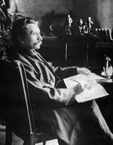 Leopold von Sacher-Masoch in Lindheim. Leopold von Sacher-Masoch (1836–1895) - Austrian writer and journalist, who gained renown for his romantic stories of Galician life. The term masochism is derived from his name.